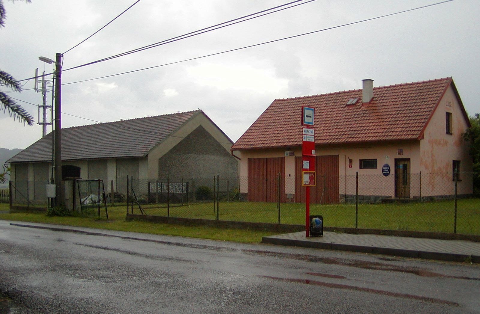 Korkyně (Příbram District, CZE)